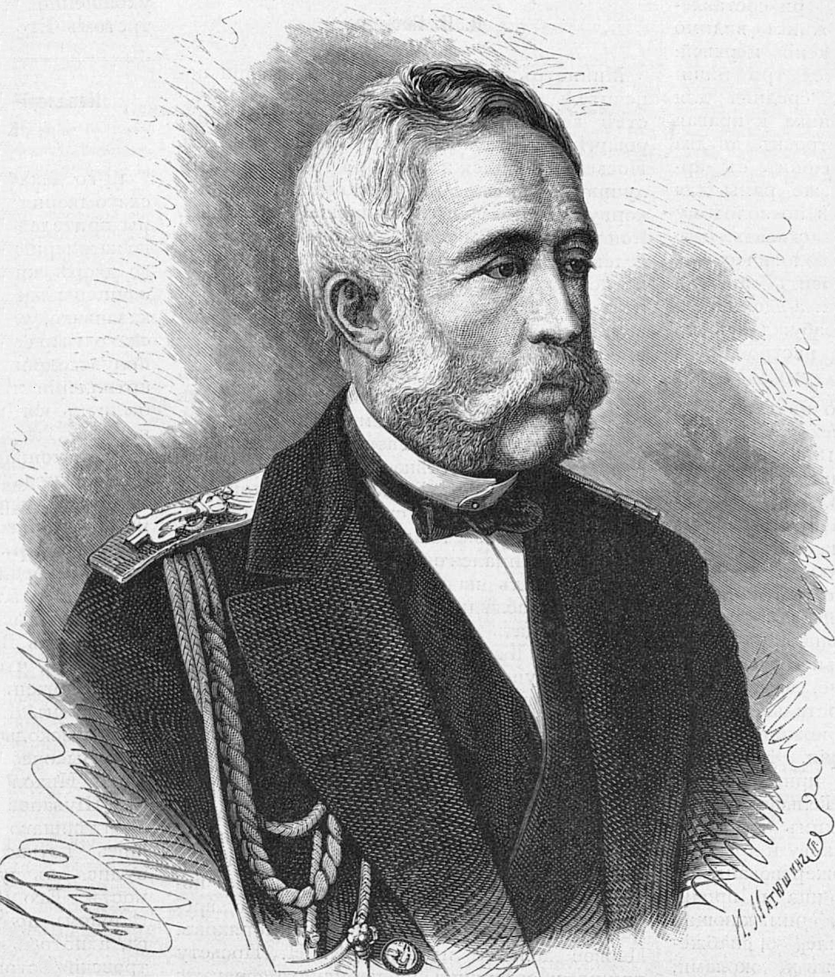 Posiet Konstantin (1819-1899) - admiral, ministr of Russia